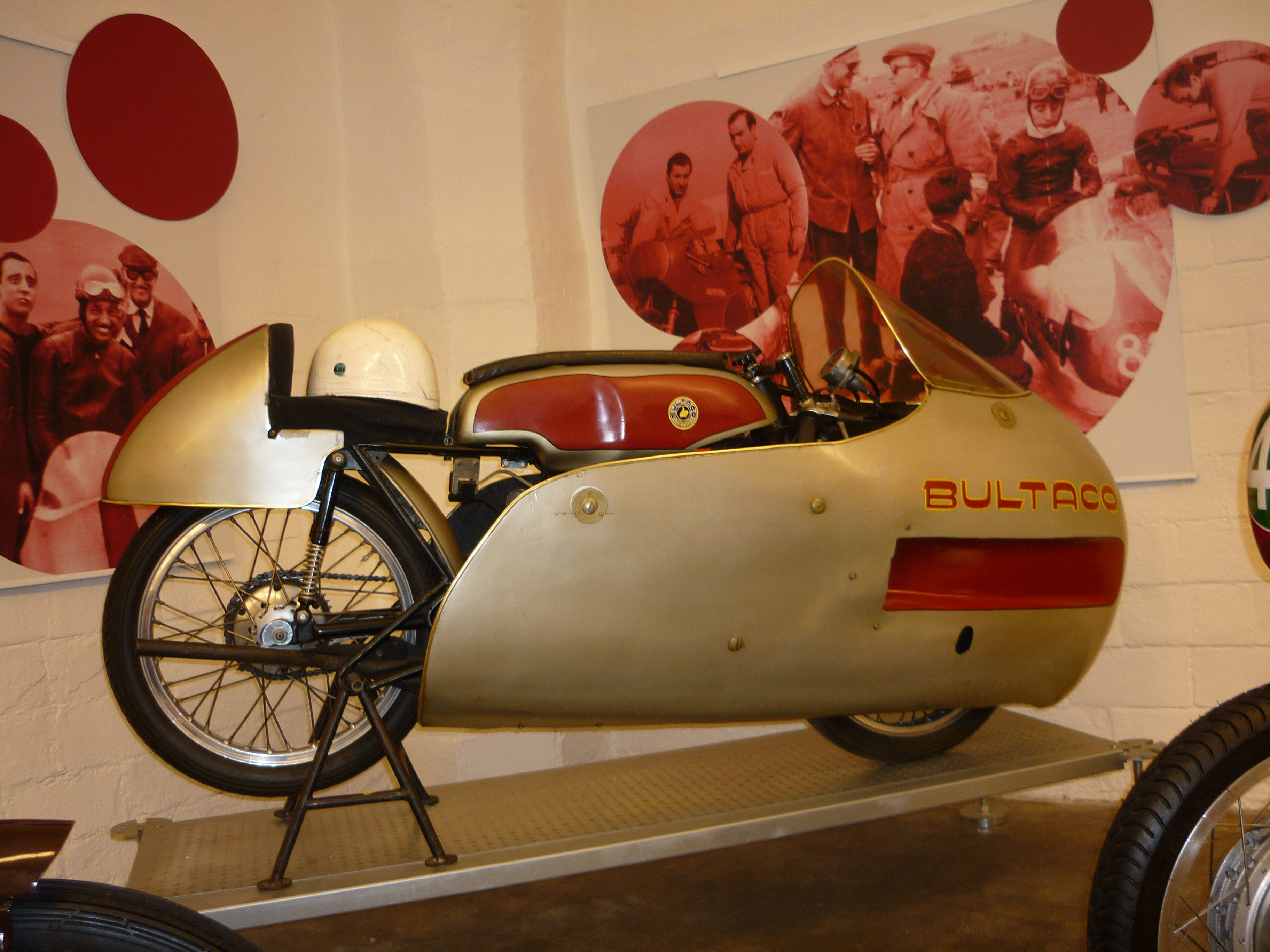 Bultaco Cazarecords ("Records hunter") 175cc. On this bike, Monneret, Cama, Grace, González and Quintanilla broke 5 world records at Montlhéry circuit on 1960